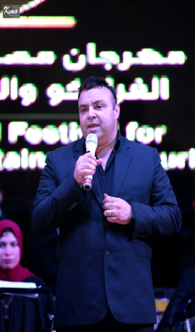 Waleed Elhosiny